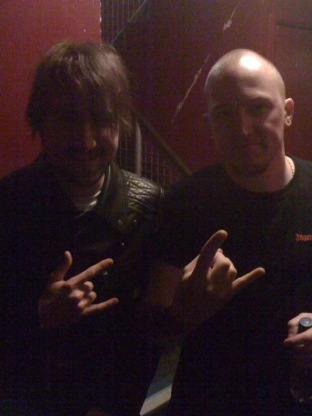 Craig Thomas of Malefice